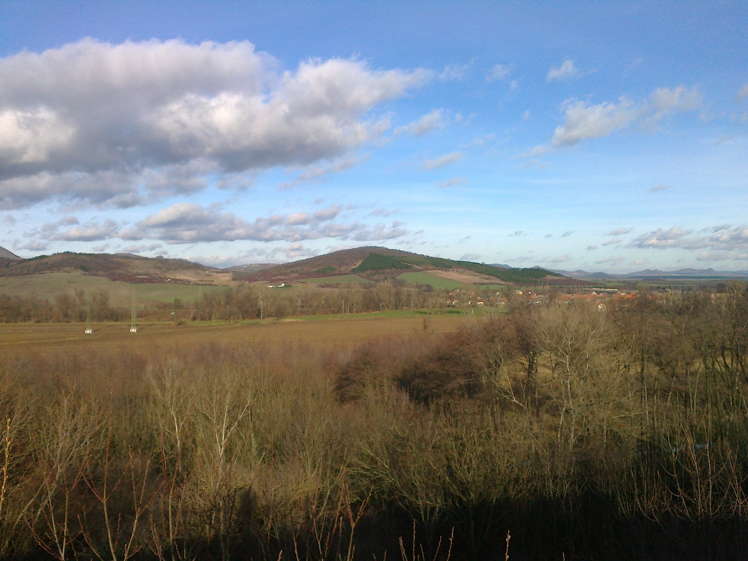 Velký vrch - hill by Vršovice